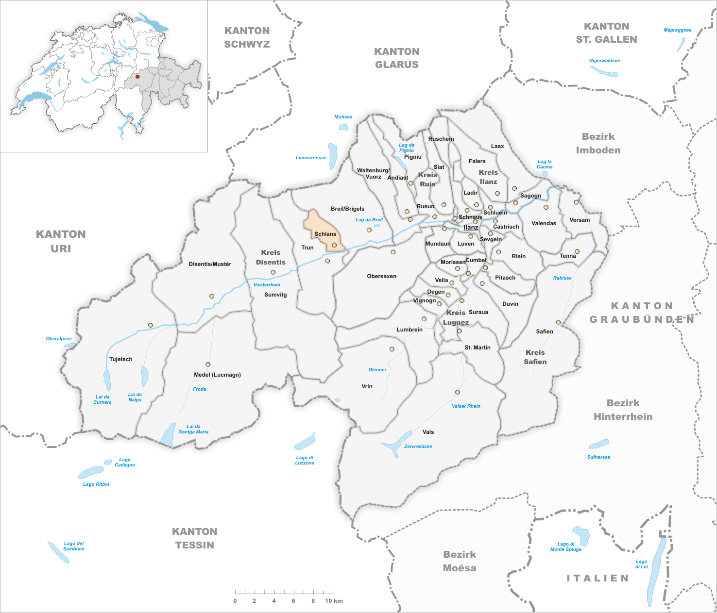 Municipality Schlans